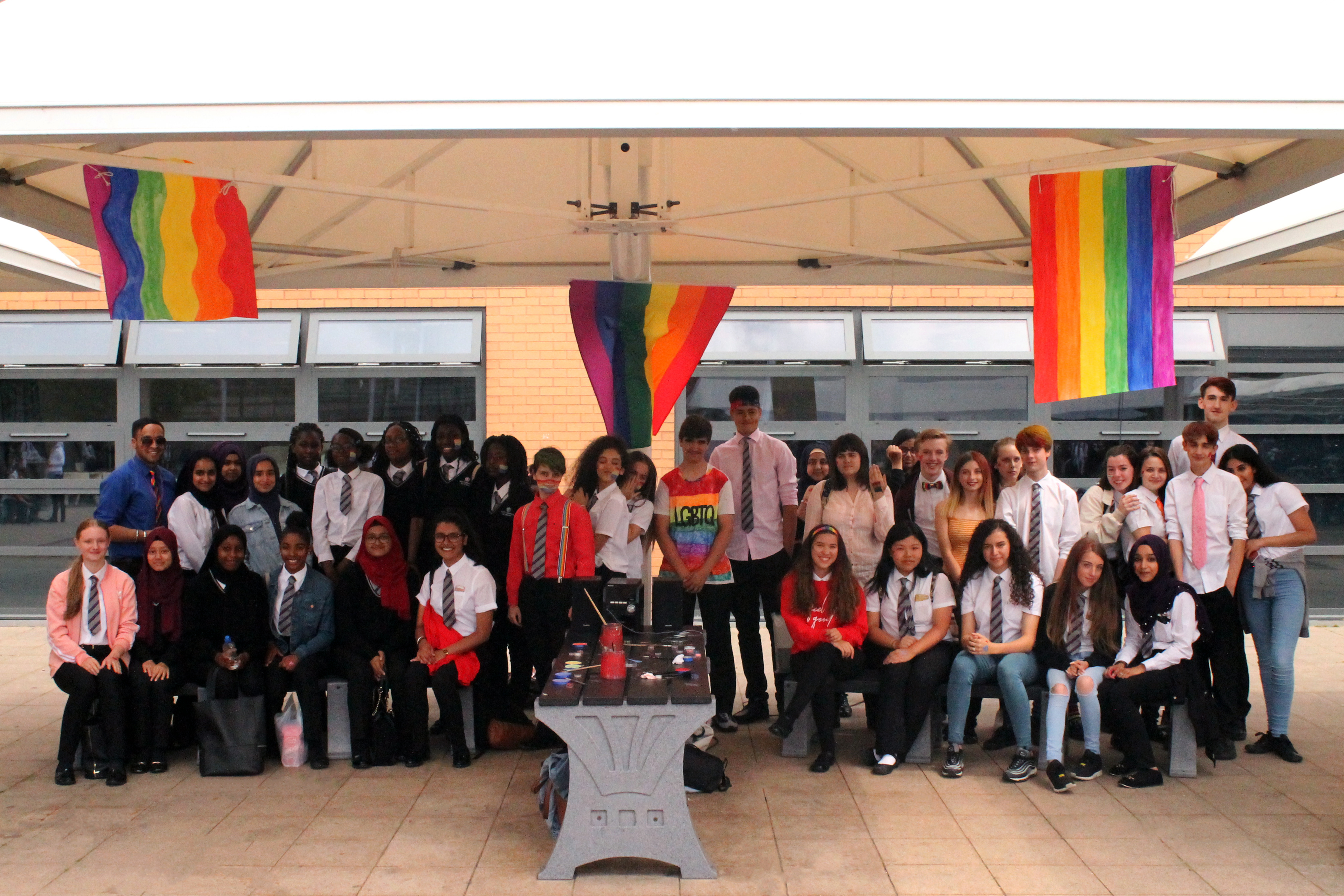 Mr S Gidda with pupils from Nottingham Academy, Greenwood Campus engaged in activities in support of Nottinghamshire Pride.